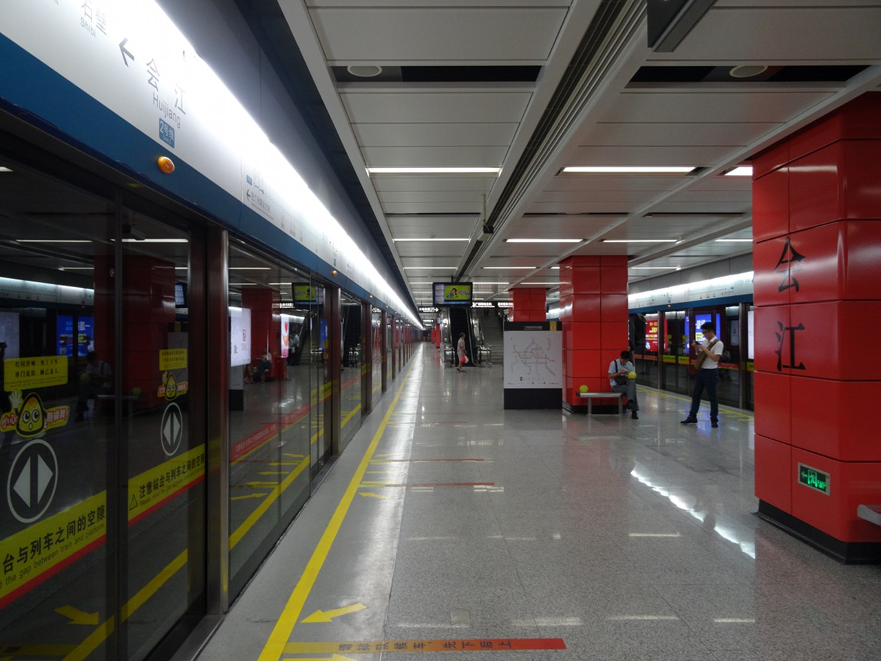 會江站嘅月台（去廣州南站個邊）